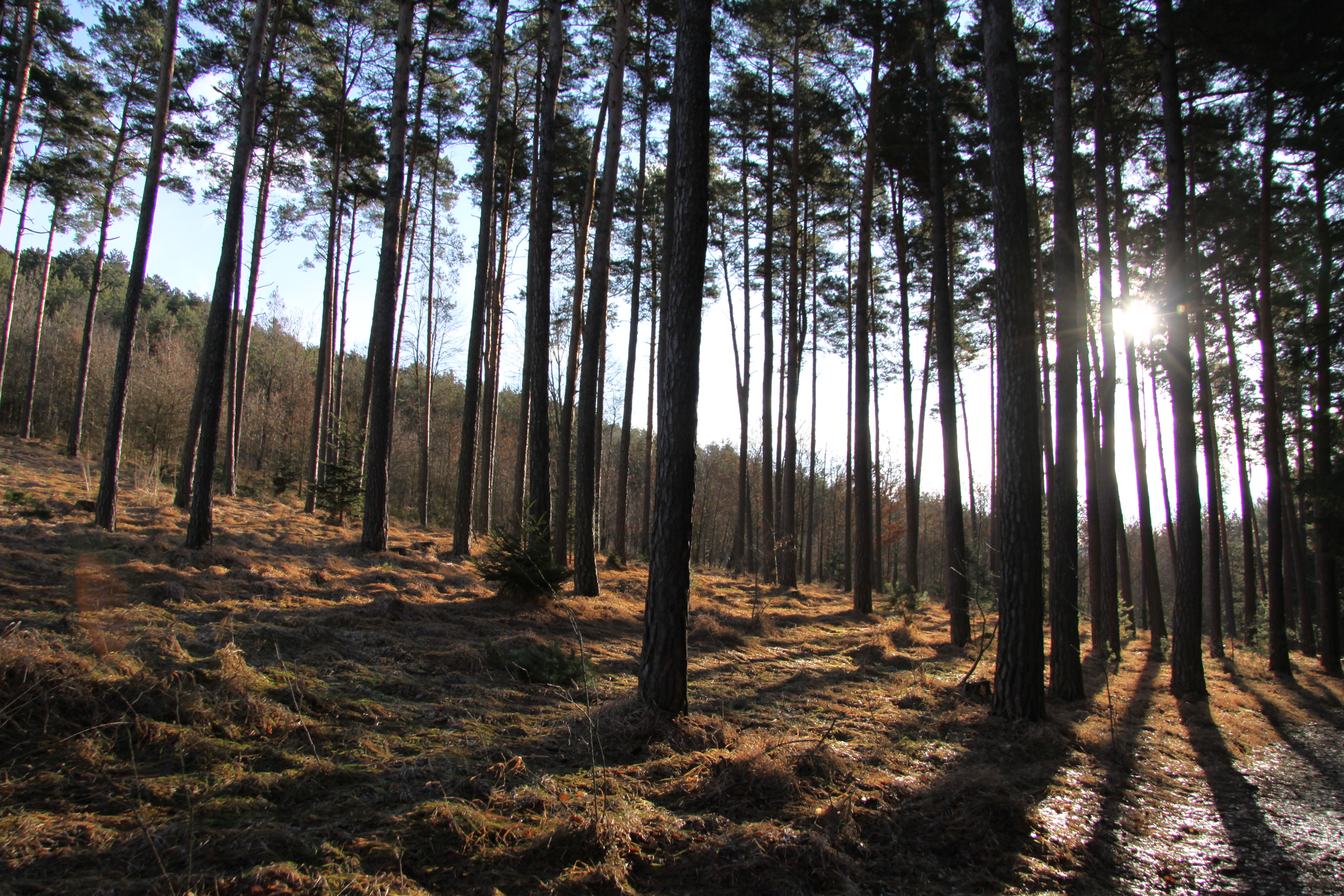 Natural monument Ryšovy near Strakonice, Strakonice District, Czech Republic - Google Maps - Google Earth